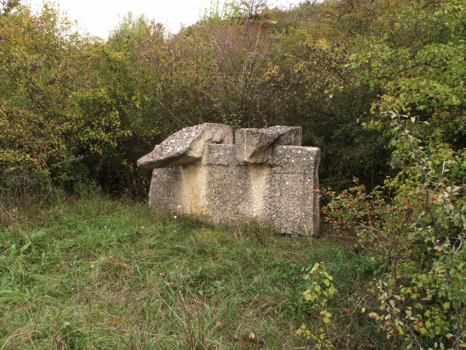 „Symposion Europäischer Bildhauer“, St.Margarethen – Burgenland/Austria, Olgierd Truszynski, 1964